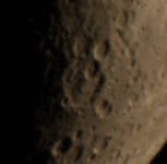 Janssen at center, on the moon near the lunar terminator as viewed from Earth. Smaller craters Brenner, Metius, Fabricius, Steinheim, and Watt also visible. Lunar limb in lower right corner.